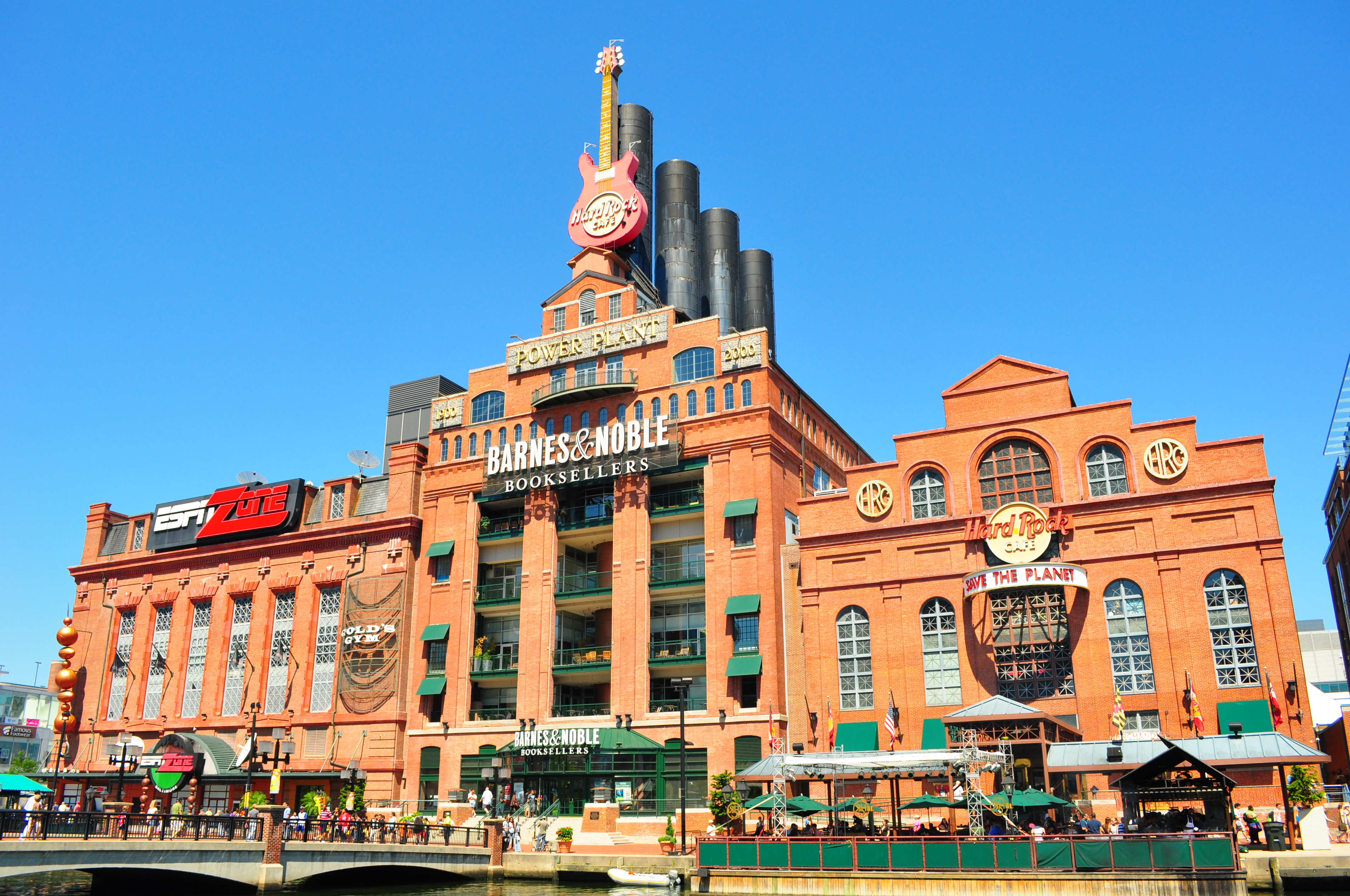 Pratt Street Power Plant on July 3, 2010 - it is the headquarters of Cordish Company